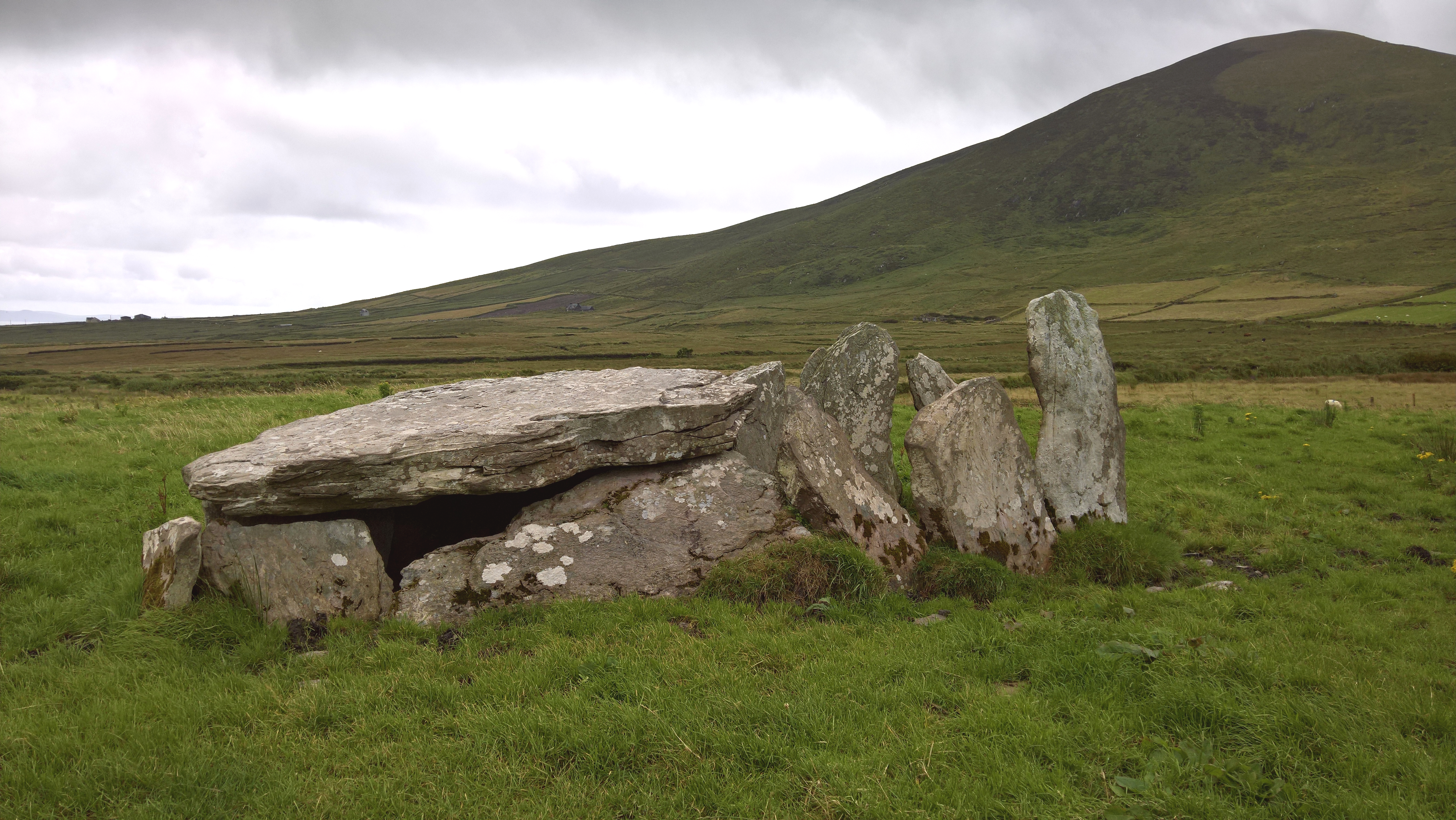 County Kerry, Coom Tomb. Wikidata has entry Q30247272 with data related to this item.